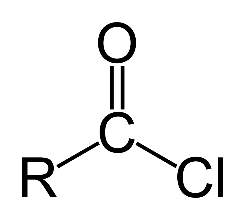 Description: Structural formula of a general acyl chloride group (RCOCl). Author, date of creation: self made by Ben Mills at 17:27, 8 March 2006 (UTC). Source: user-created image Comments: high-resolution black and white PNG; ChemDraw / Photoshop.